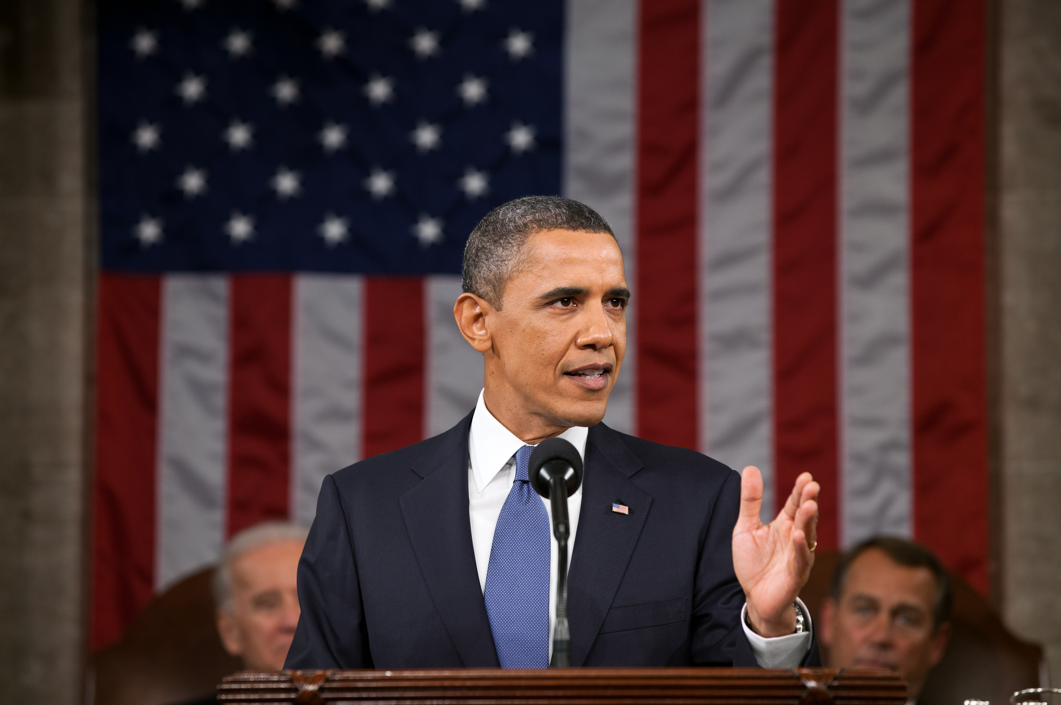 U.S. President Barack Obama delivers the 2011 State of the Union Address while standing in front of President of the Senate Joe Biden and Speaker of the House John Boehner.